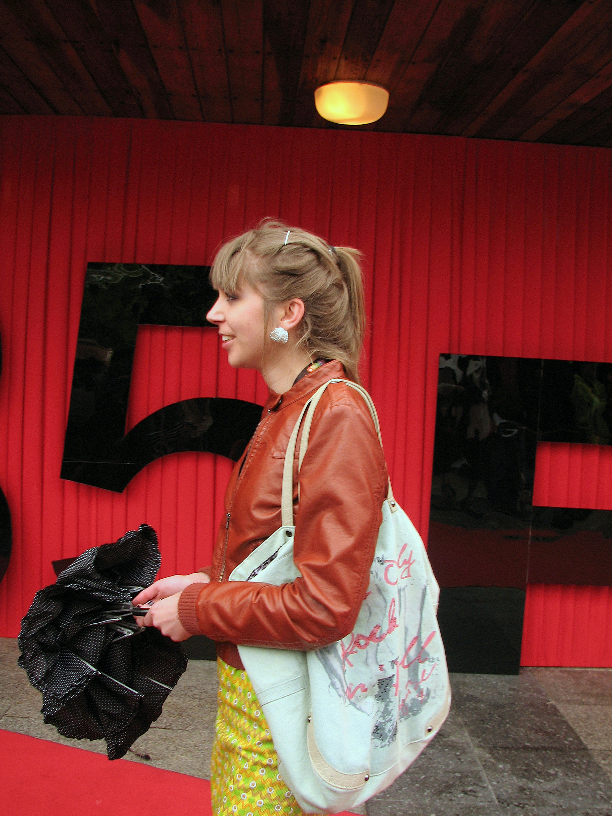 Katarzyna Rosłaniec at opening of the XXXV Polish Film Festival in Gdynia 2010.